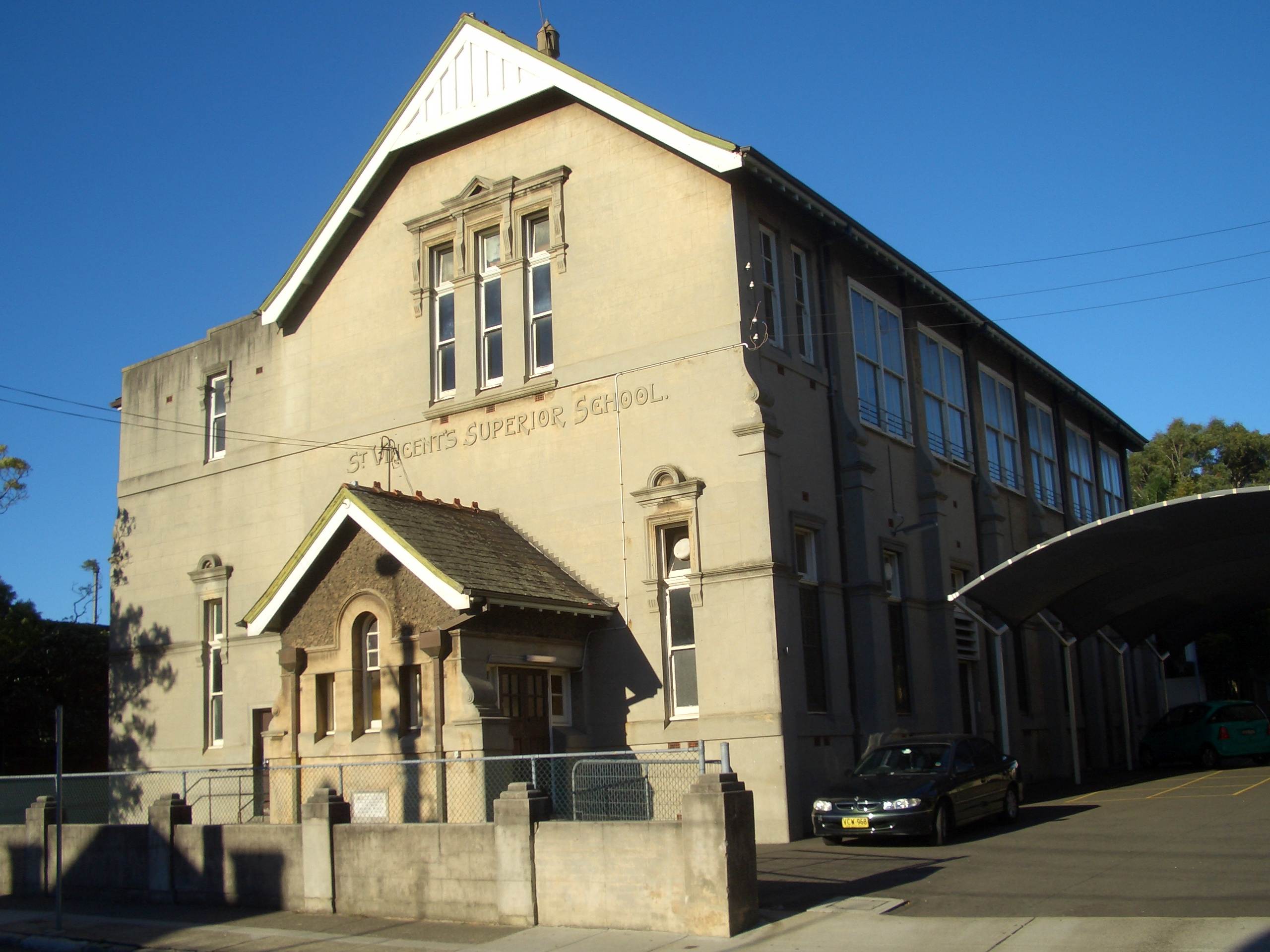 Ashfield, St Vincents Catholic Church School.